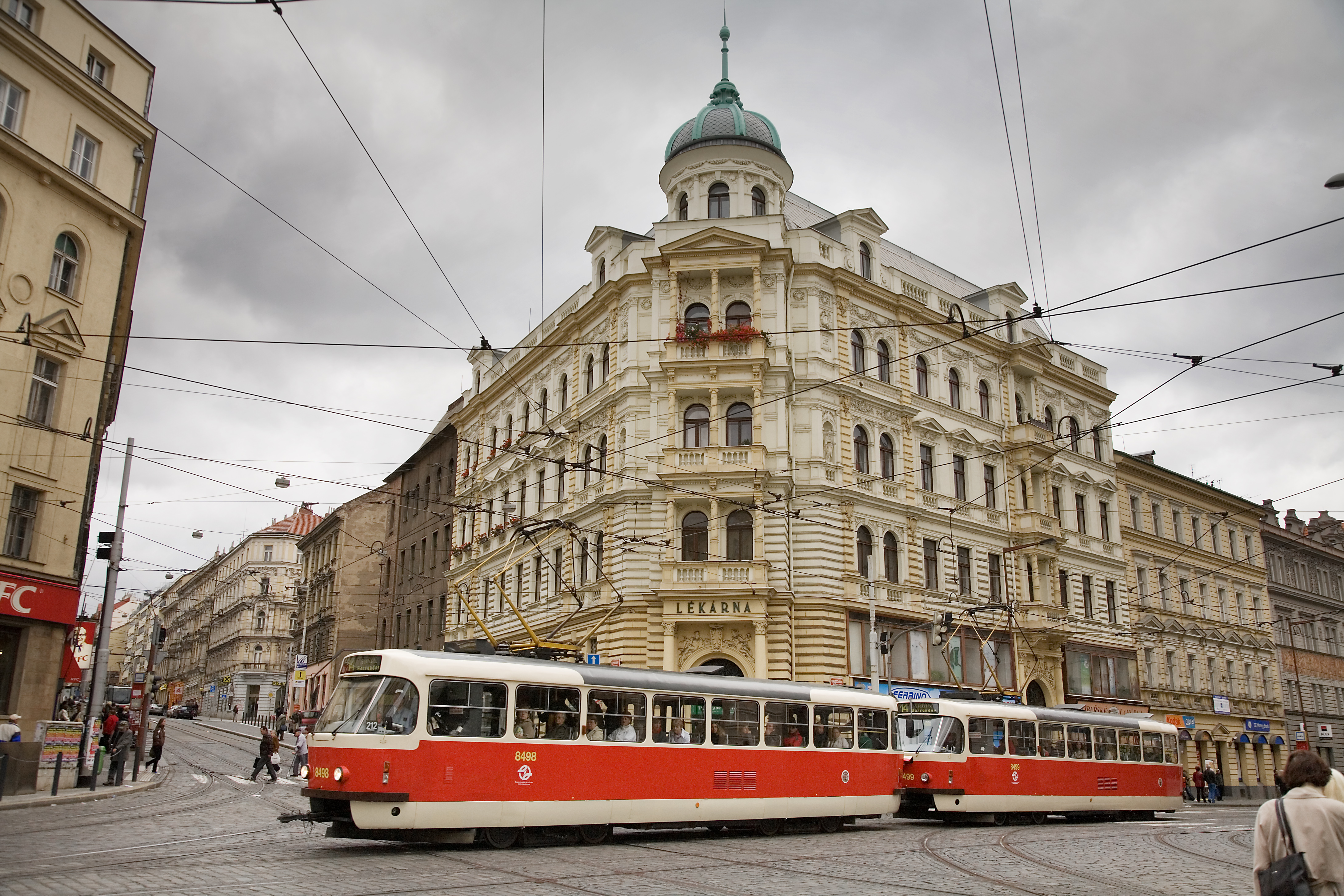 Tramway in the city, Prague